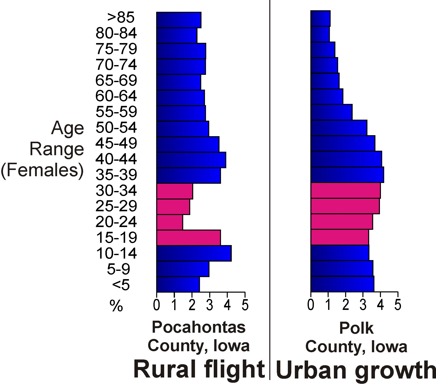 Chart comparing the age curves of Pocahontas County and Polk County to demonstrate Rural flight